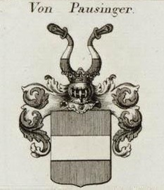 Adeliche (Ennobled); Pausinger.